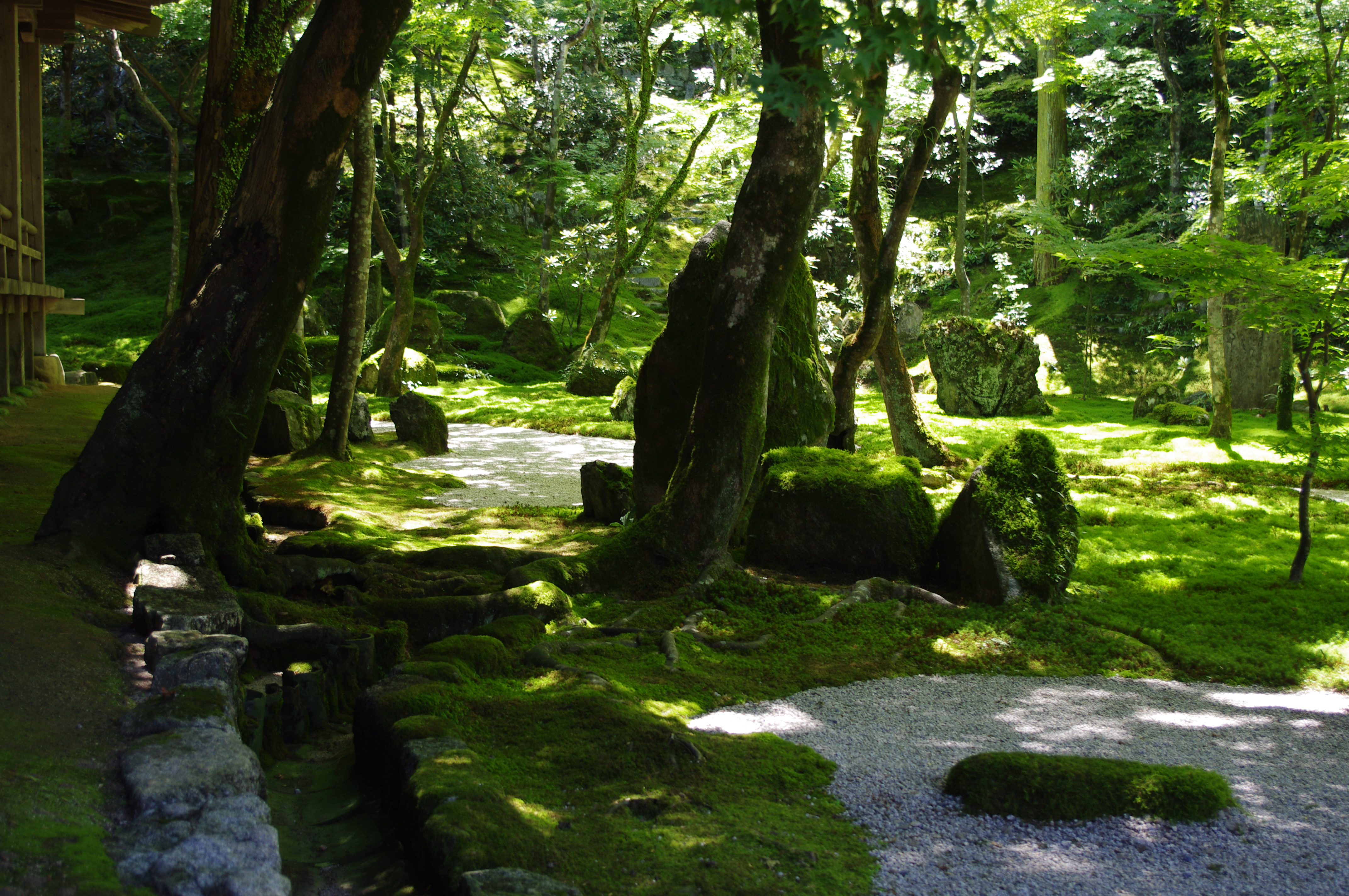 Stone garden of Komyozenji Temple in Dazaifu